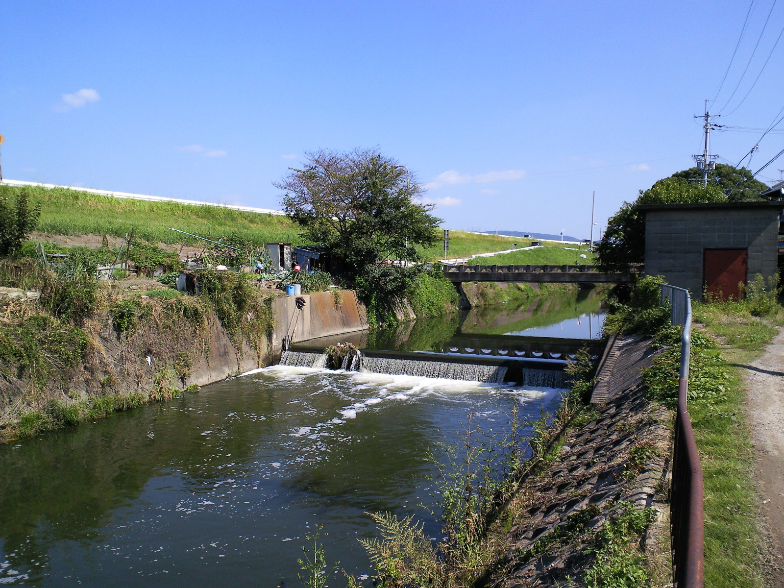 Ochibori-gawa (River) in Matsubara, Osaka